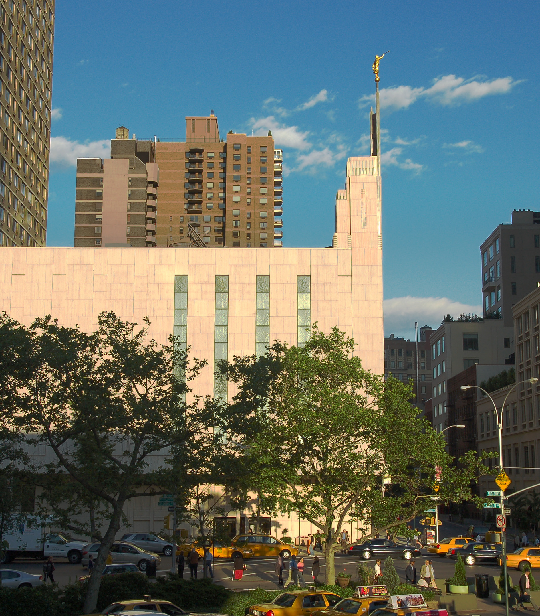 Looking across Broadway at Manhattan New York Temple Eric Sorenson, 2006